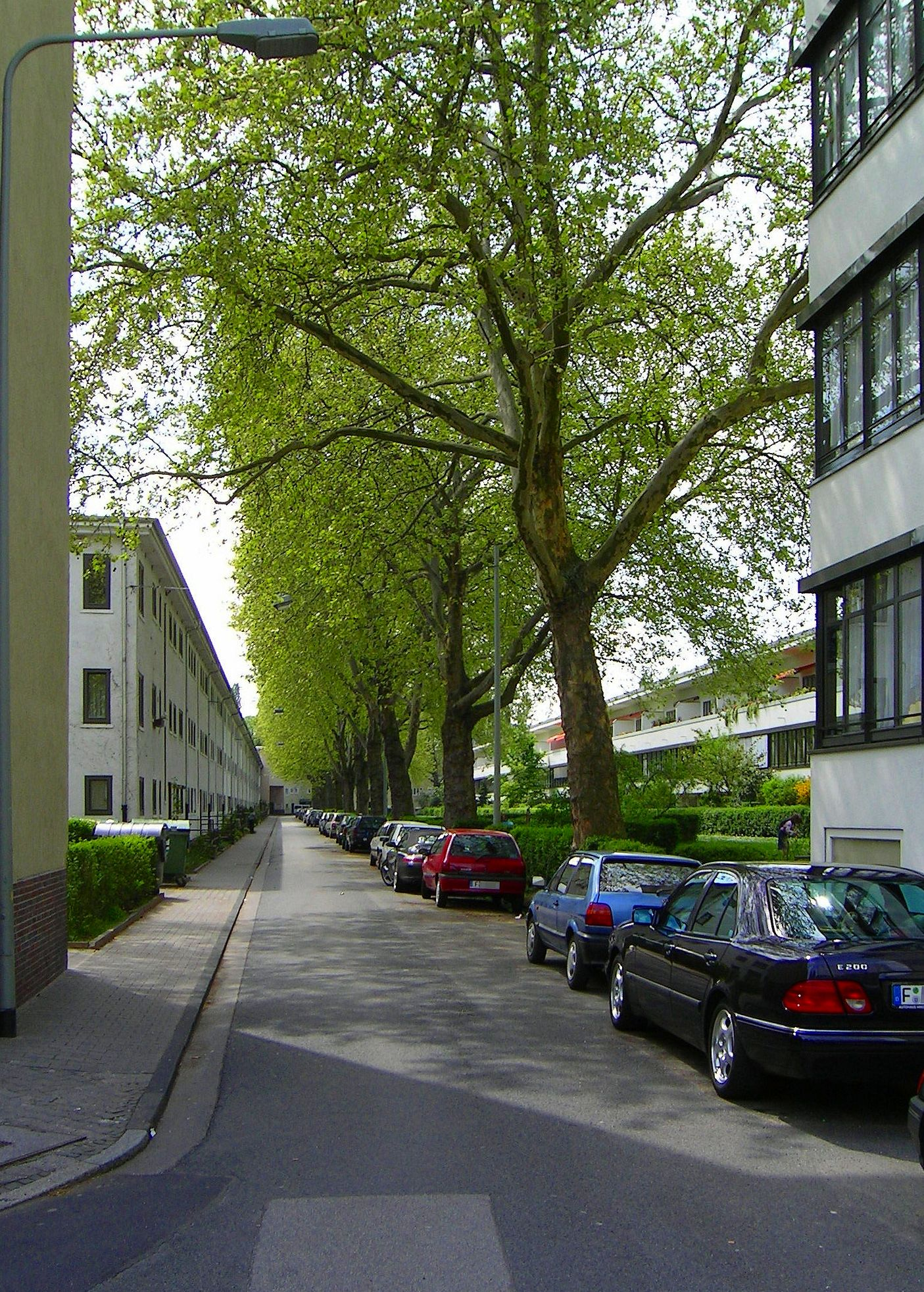 Unter den Platanen, a street of the Heimatsiedlung in Frankfurt-Sachsenhausen